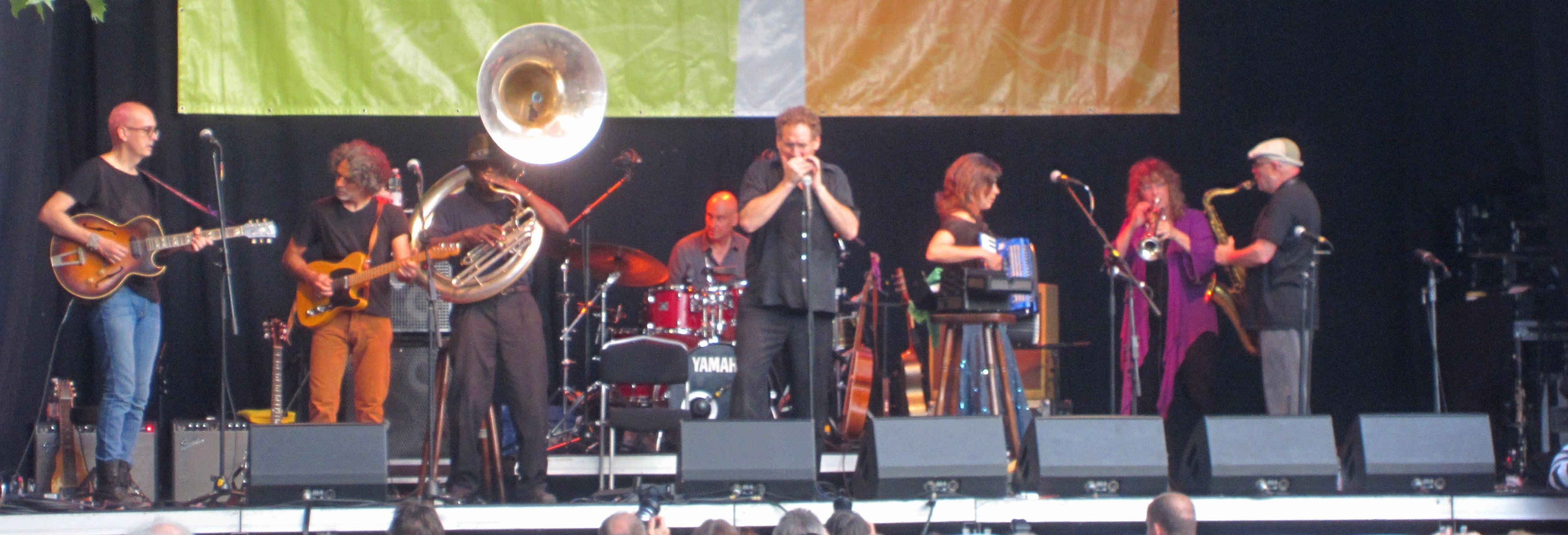 Hazmat Modine at the Festival der Kulturen Stuttgart, 16.07.2013